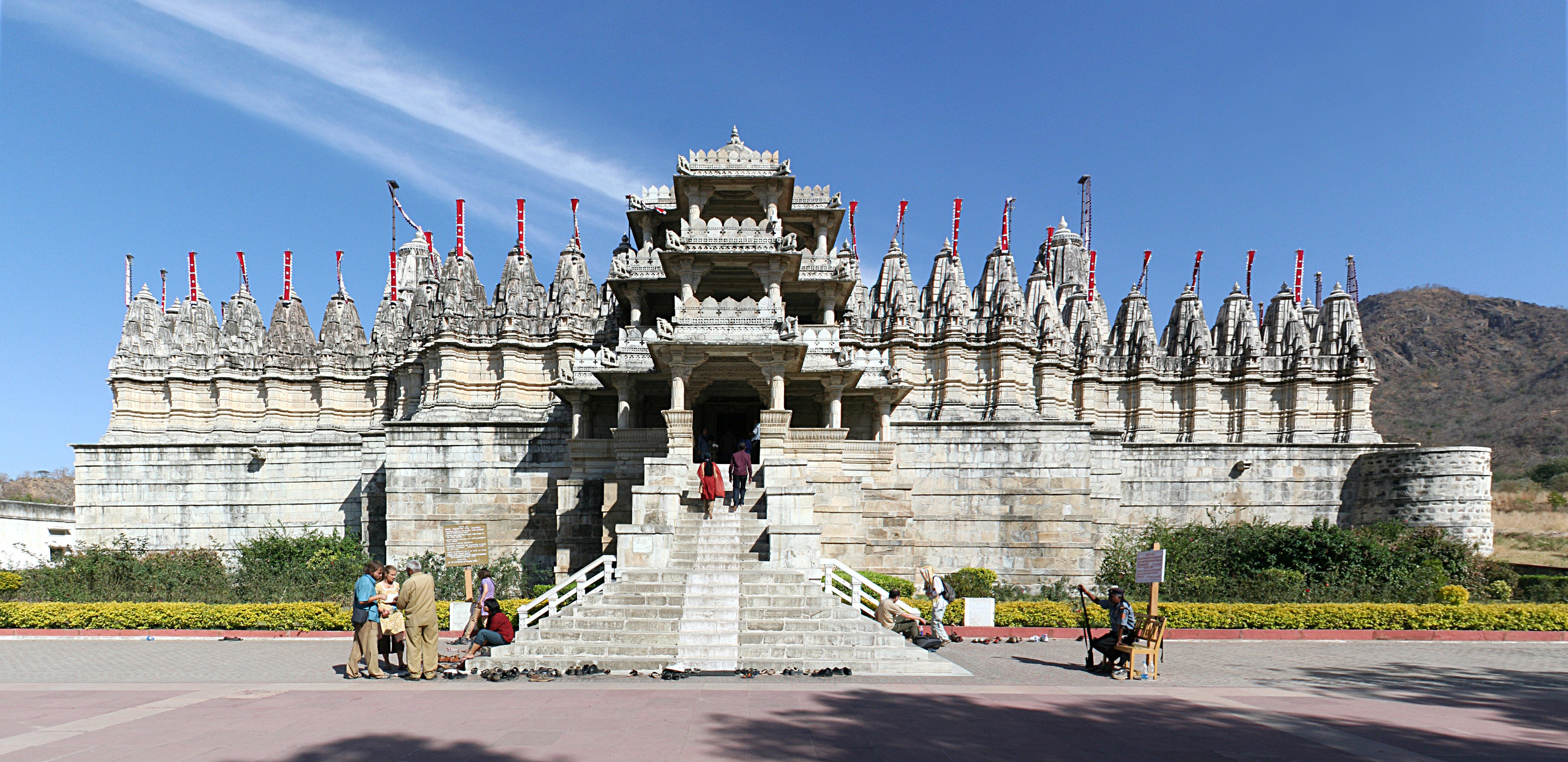 Ranakpur Jain Temple - Front Side